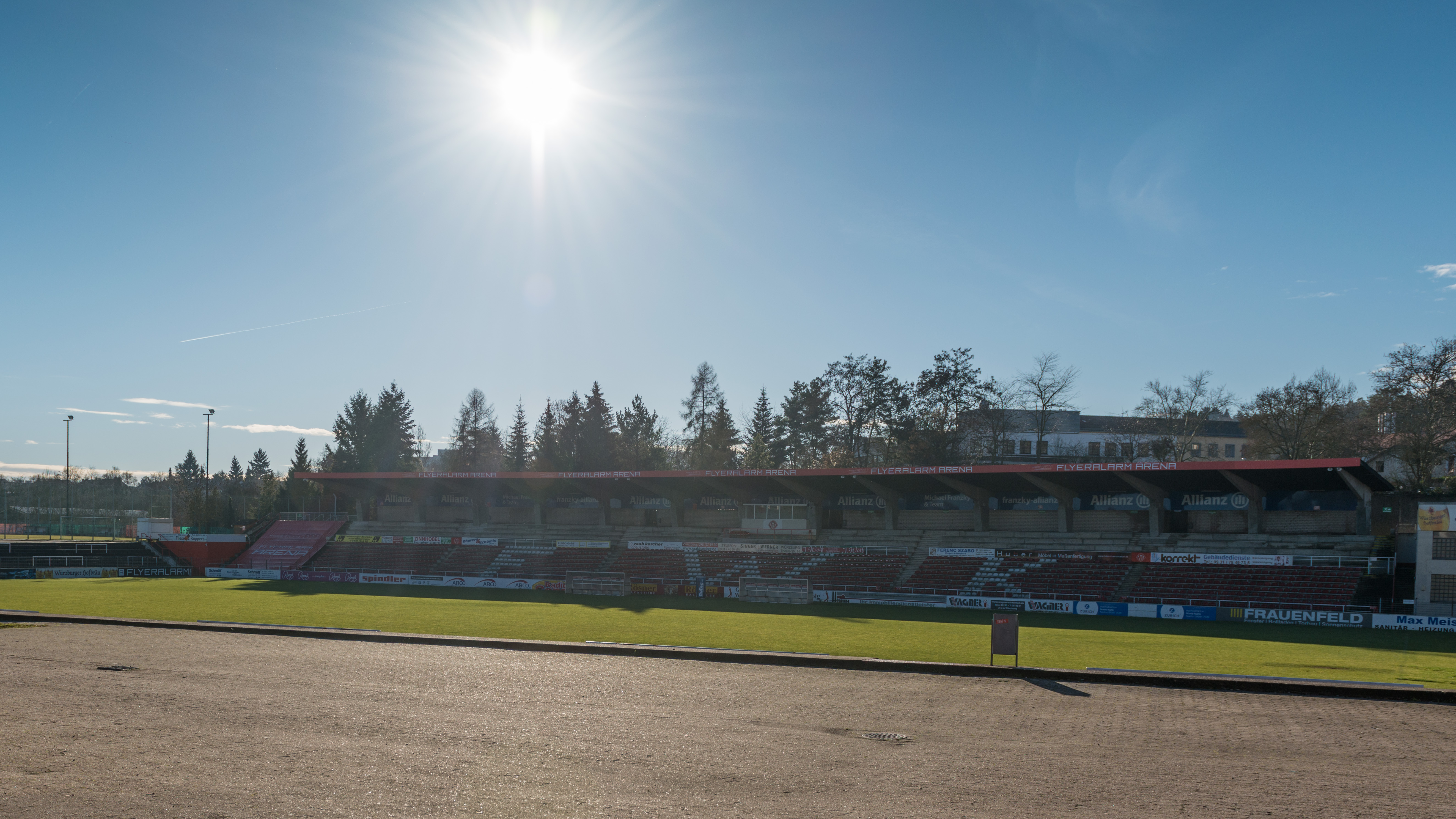 The main stand of the Flyeralarm Arena, the home of the FC Würzburger Kickers